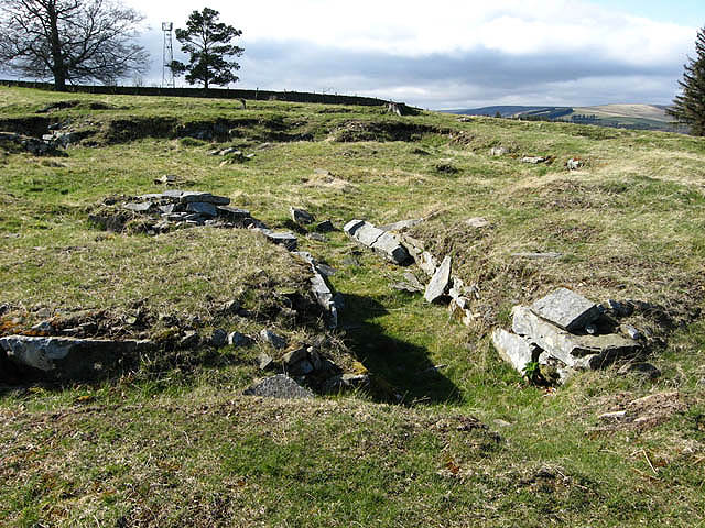 Torwoodlee broch Very little remains of this broch that is set within a ramparted hill fort. This shows where the entrance to the broch was.